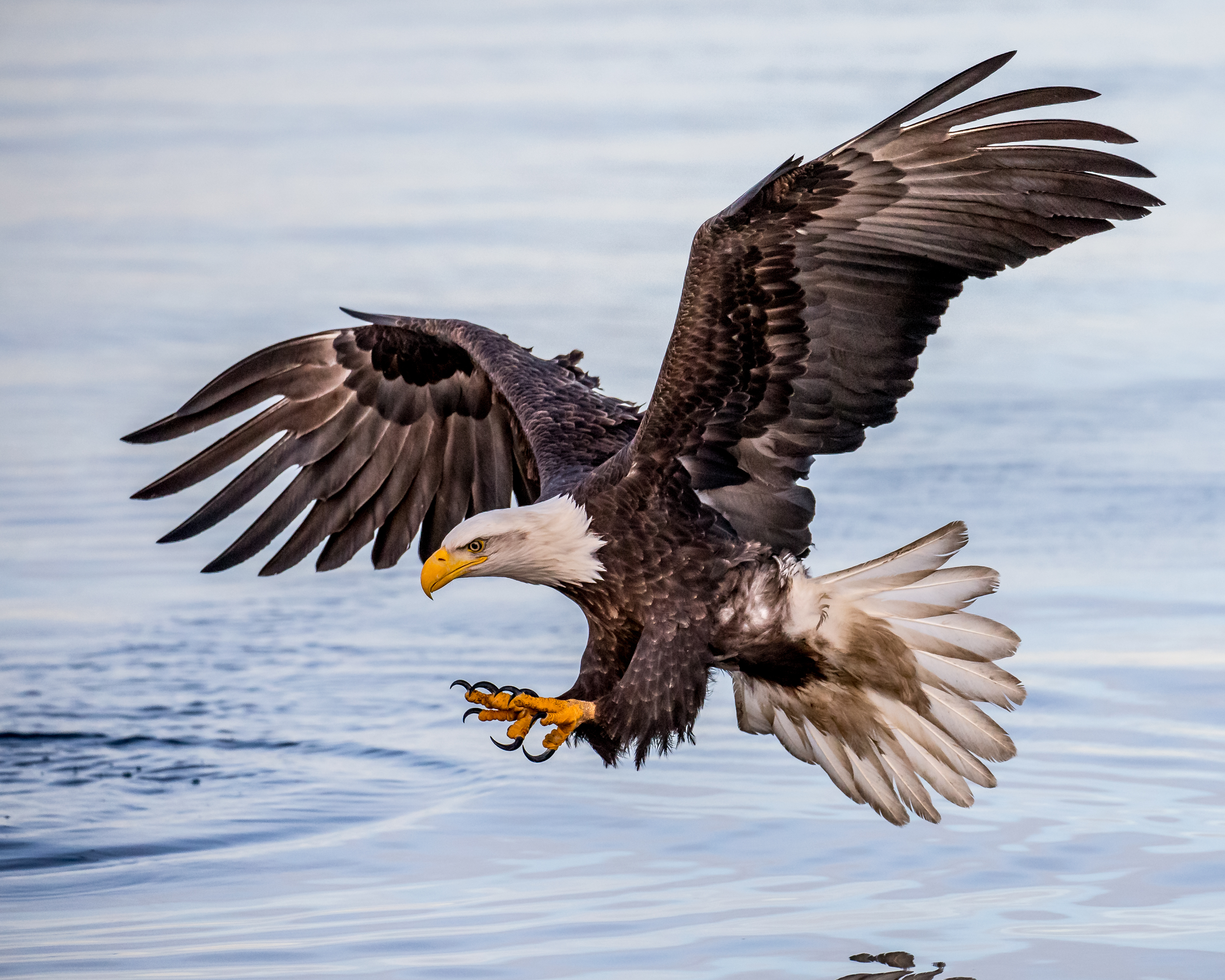 A bald eagle fishing - taken in Kachemak Bay, Alaska.